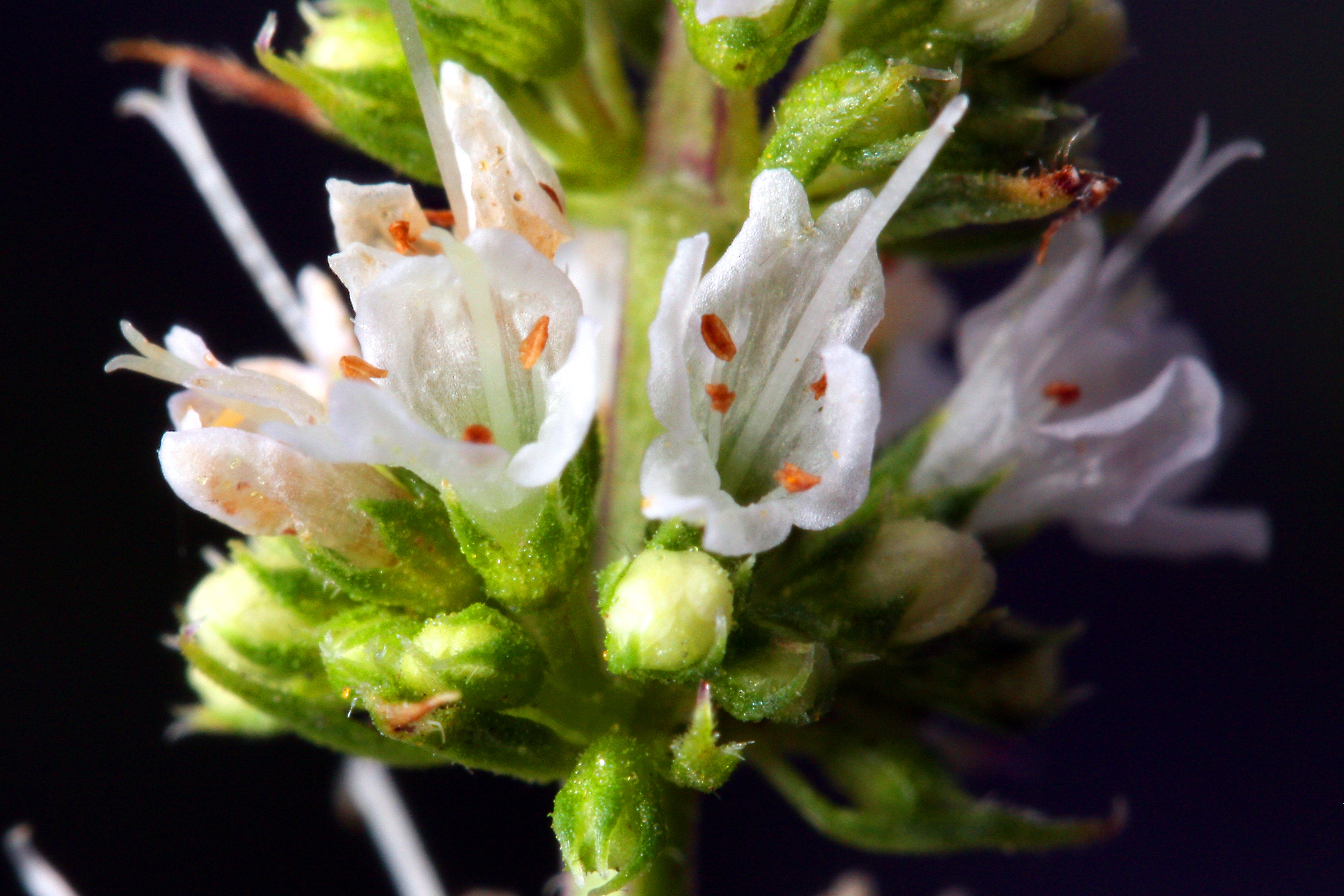 very small 1.8:1 magnification, 328 px/mm